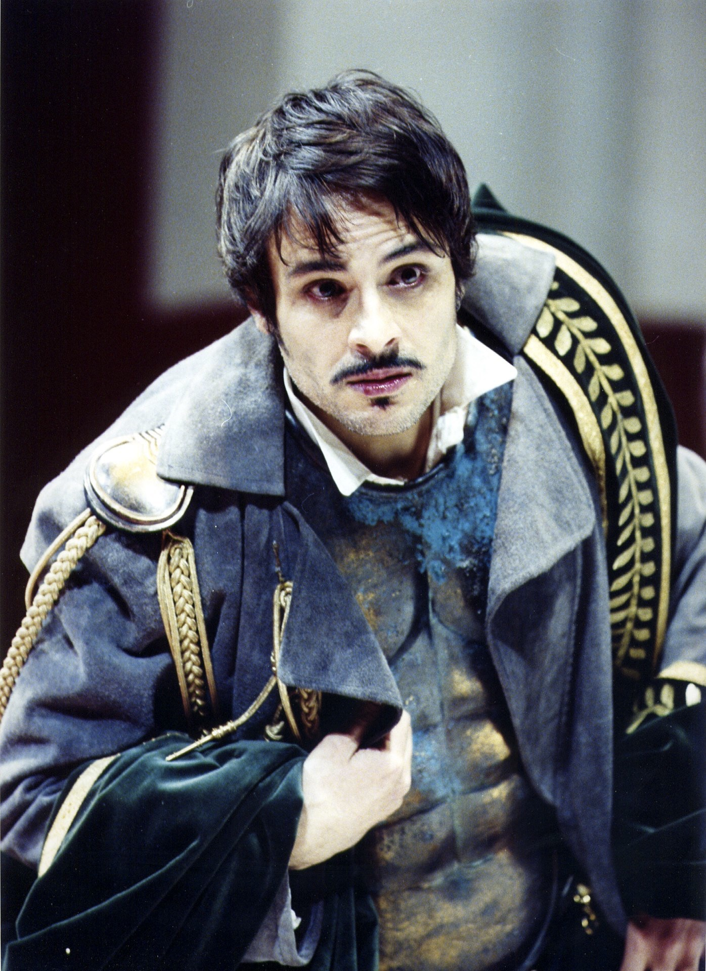 Anfitrione